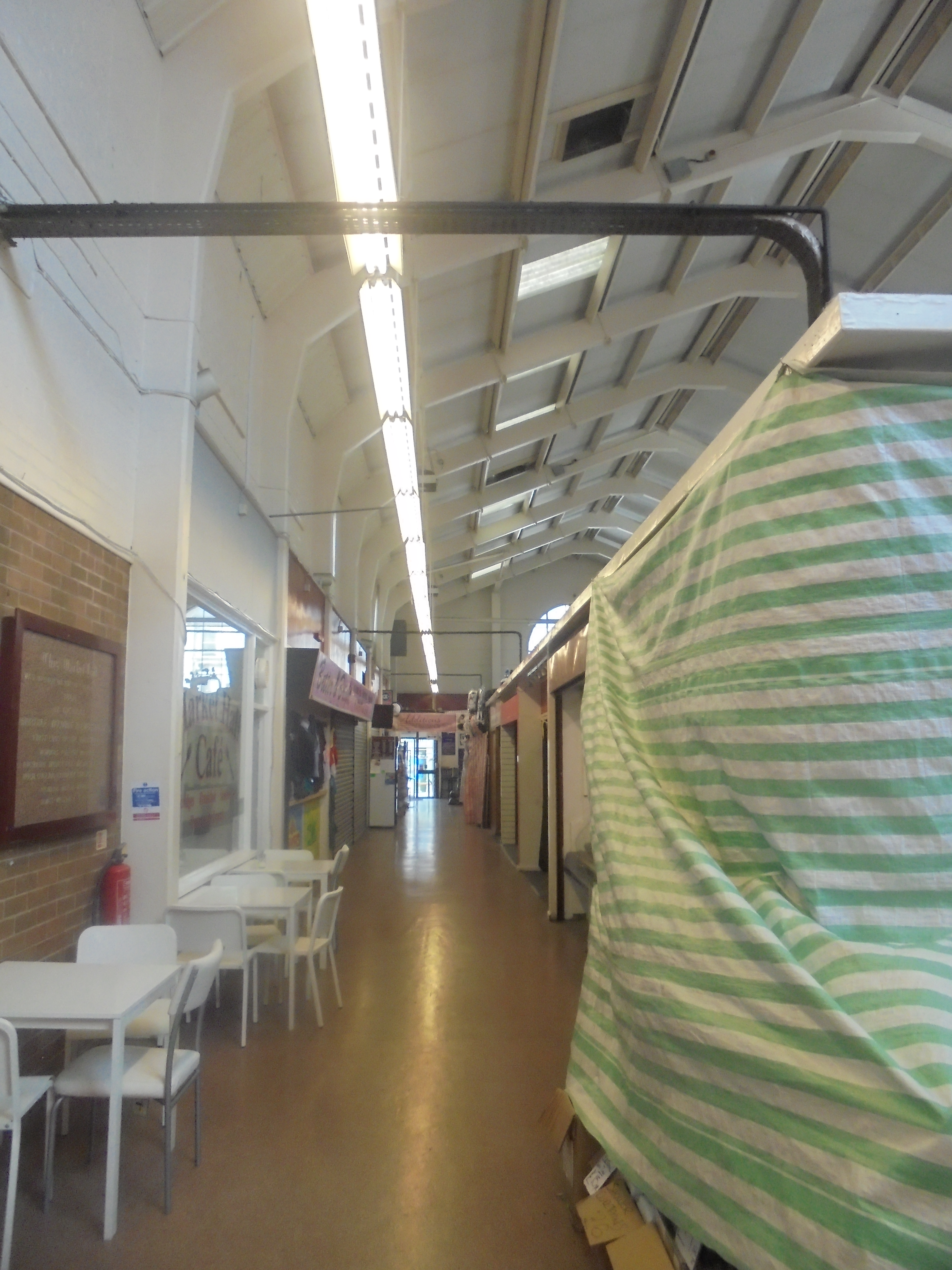 Interior of Pontefract Market Hall, Pontefract, West Yorkshire. Taken on the afternoon of Thursday the 25th of April 2019.